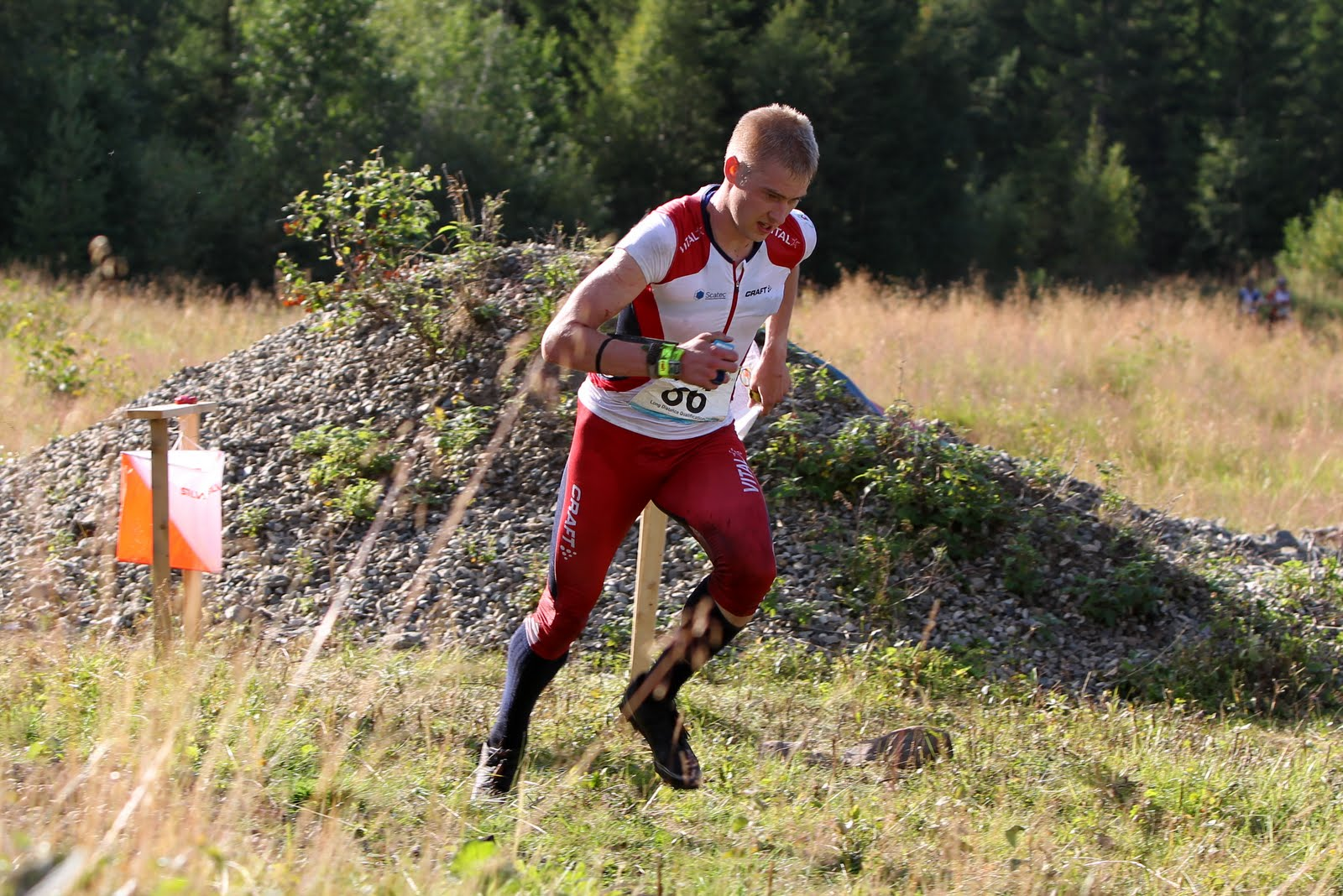 Olav Lundanes at World Orienteering Championships 2010 in Trondheim, Norway - Long Distance Qualification